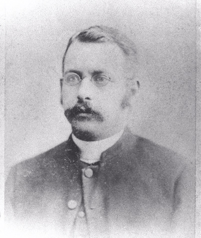 Rev. Arthur Lloyd (1852-1911), Anglican missionary and academic, undated photograph